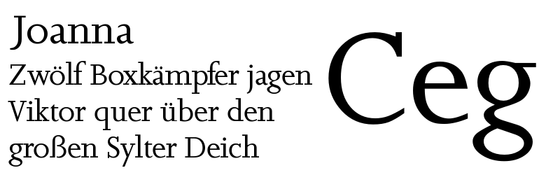 german pangram in typeface Joanna